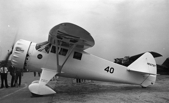 Howard DGA-6 "Mister Mulligan" air racer.